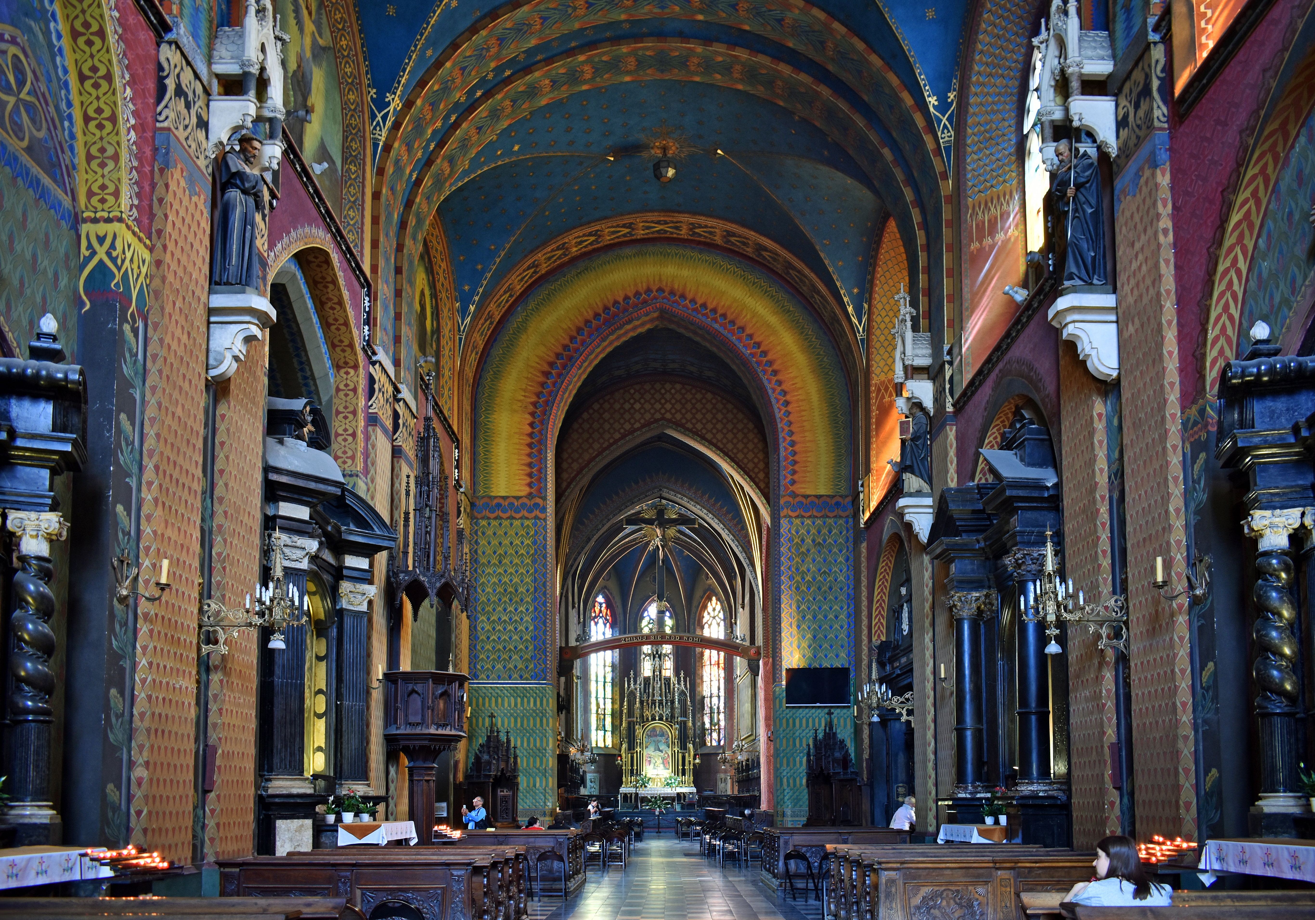 St. Francis of Assisi Church (interior), 2 Franciszkanska street, Old Town, Krakow, Poland